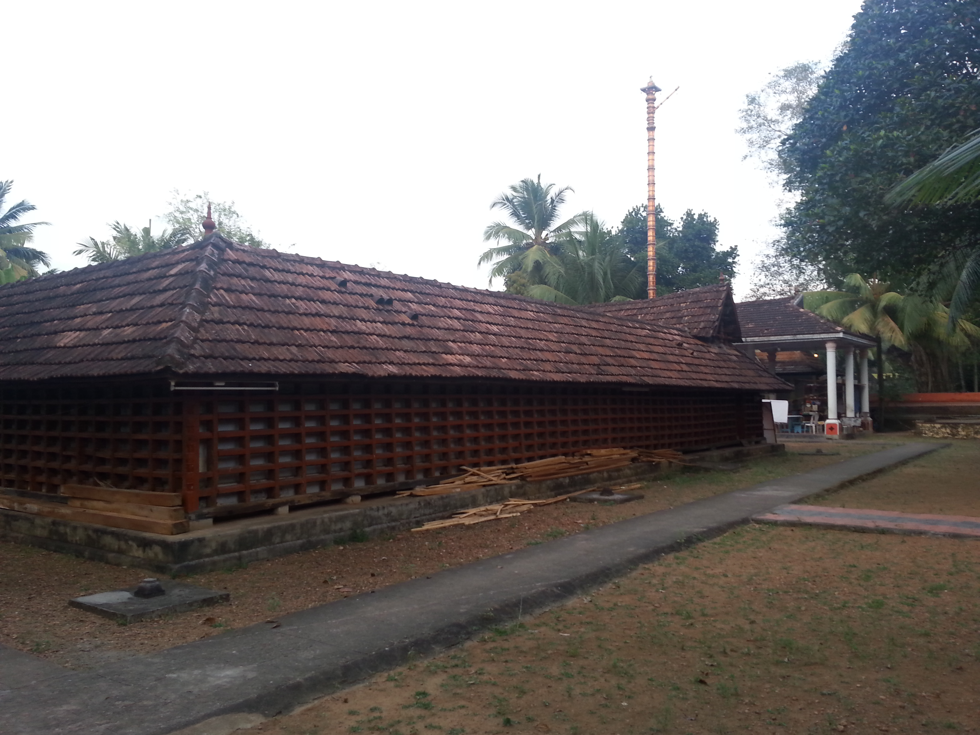 Puzhavathu Sree SanthanaGopala Temple - Nalambalam